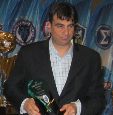 Carmine Isacco named League 1 Ontario Coach of the Year